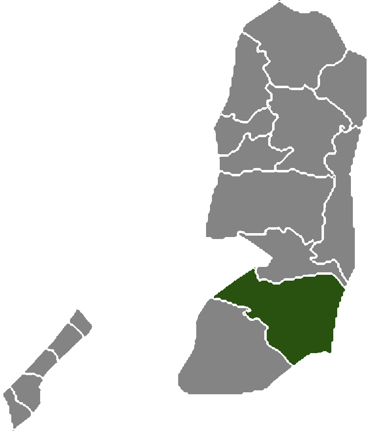 Palestine governorate Bethlehem